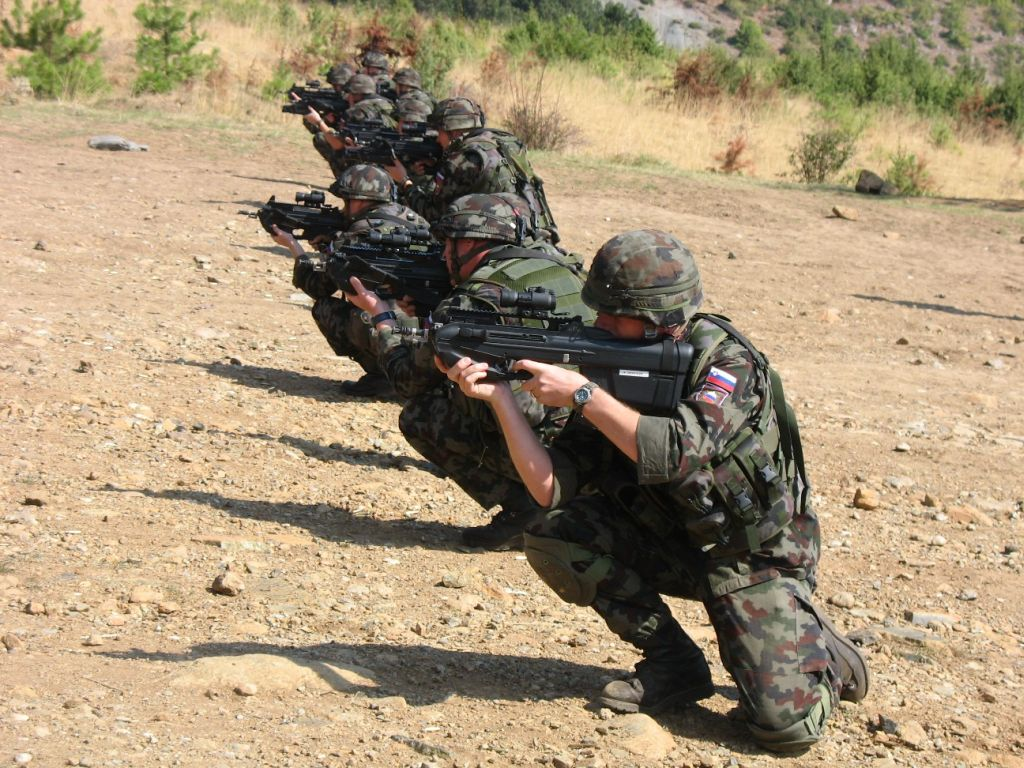 Slovenian Army soldiers with FN F2000 rifles